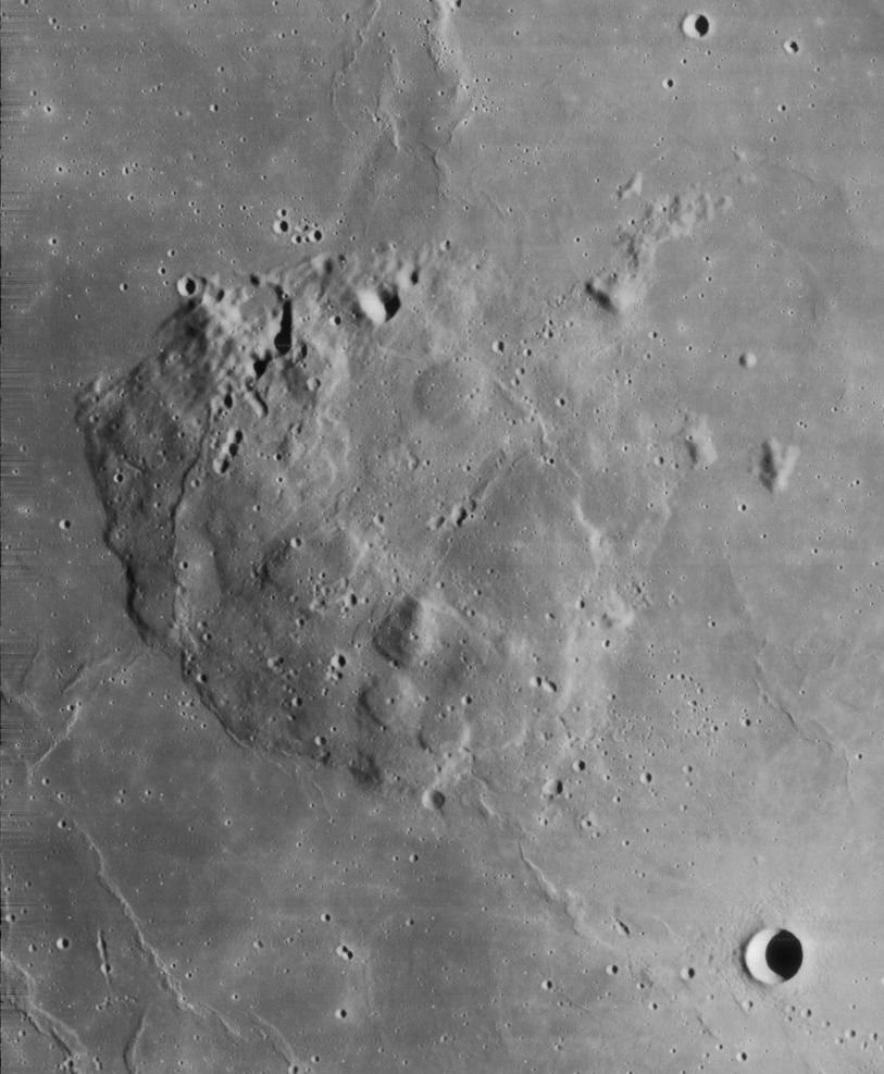 Mons Rumker on the Moon.